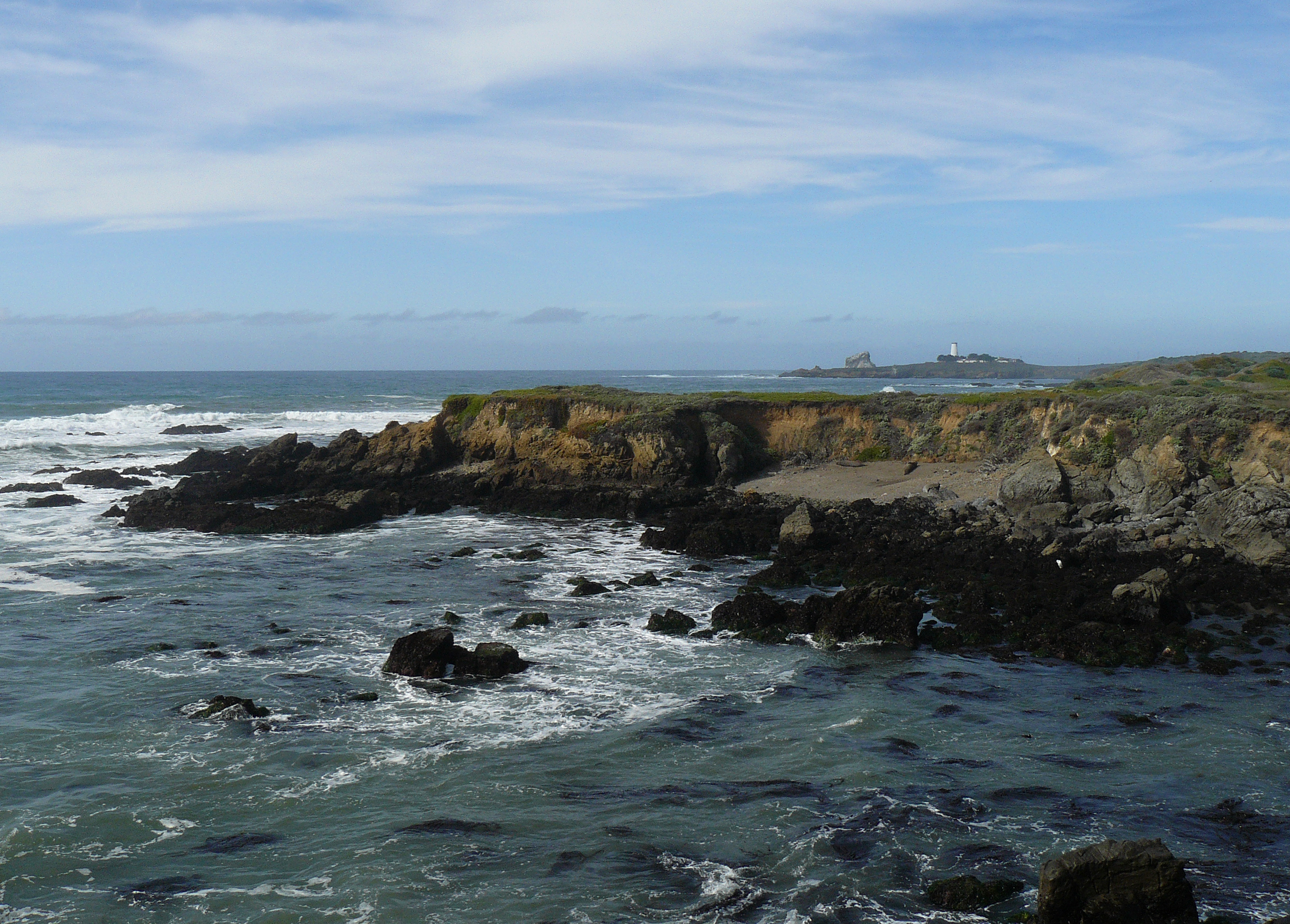 Coastline of the Piedras Blancas State Marine Reserve and Marine Conservation Area, San Luis Obsipo County, California. In the background is the Piedras Blancas Lighthouse.